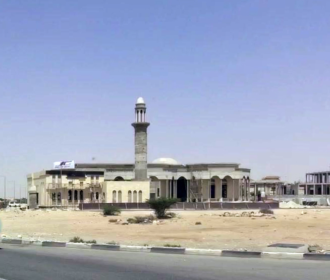 View from a roundabout of the ongoing construction of a mosque in Umm Salal Ali.